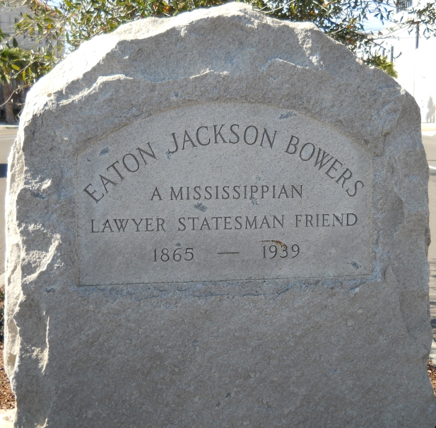 Monument to Eaton Jackson Bowers, located on 13th Street, between 24th and 25th Avenues, Gulfport, Mississippi, USA.